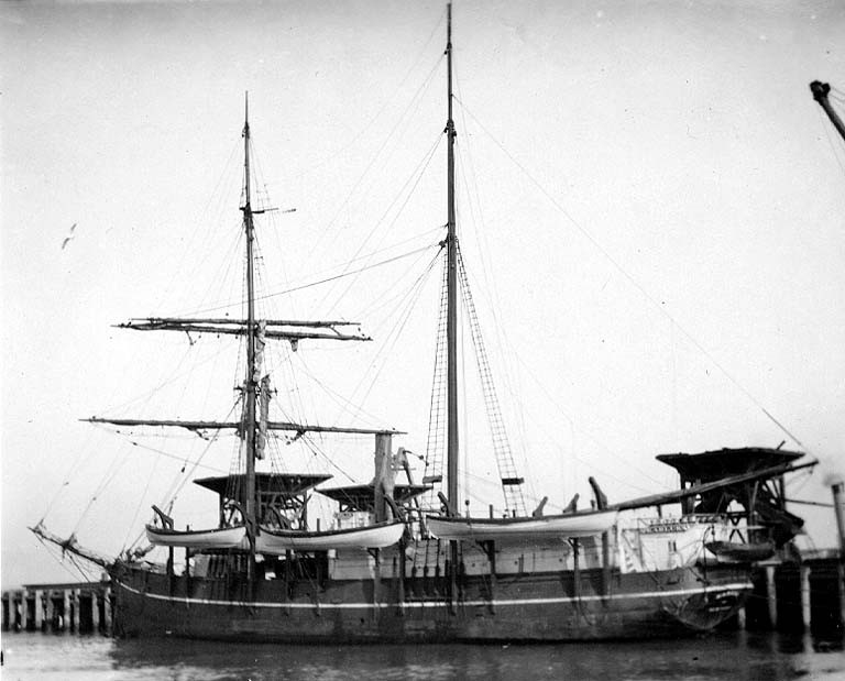 On verso of image: Alaska-whaling, Whaling steamer Karluk, 1913 Subjects (LCSH): Whaling ships--Alaska; Karluk (Steamship)